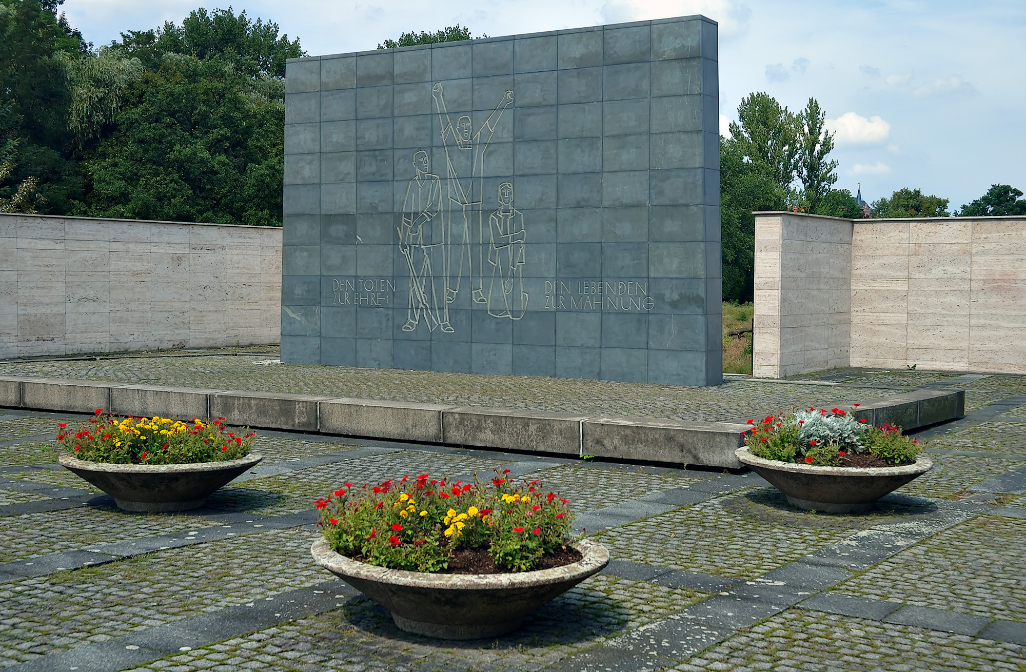 This image shows the war monument near the central city pond in Zwickau (Saxony, Germany).